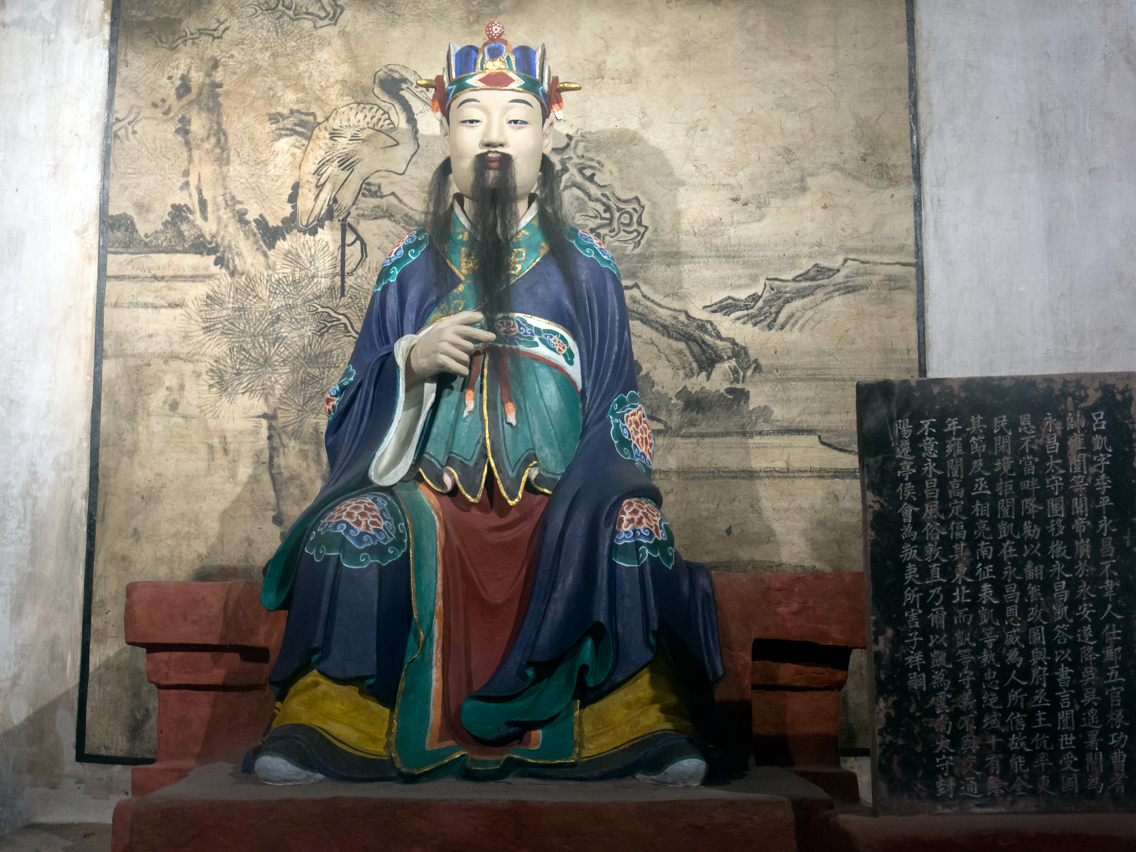 Lü Kai (呂凱)